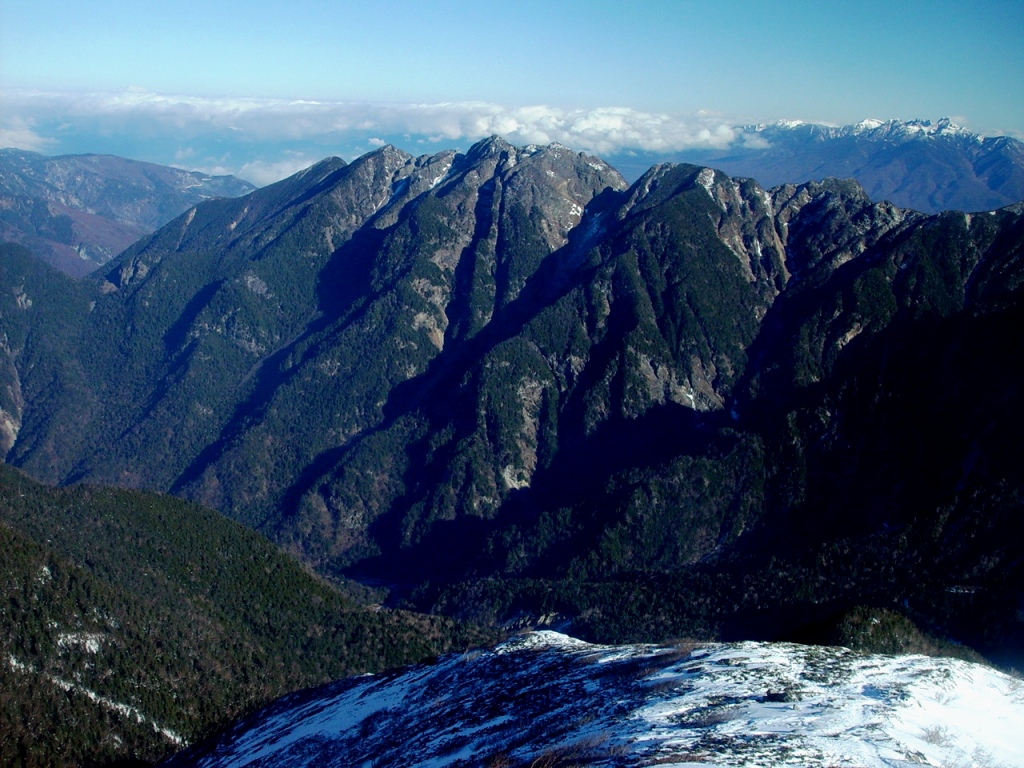 Mount Nokogiri from_Mount Senjō